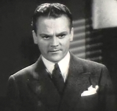 screenshot of James Cagney from the film G Men